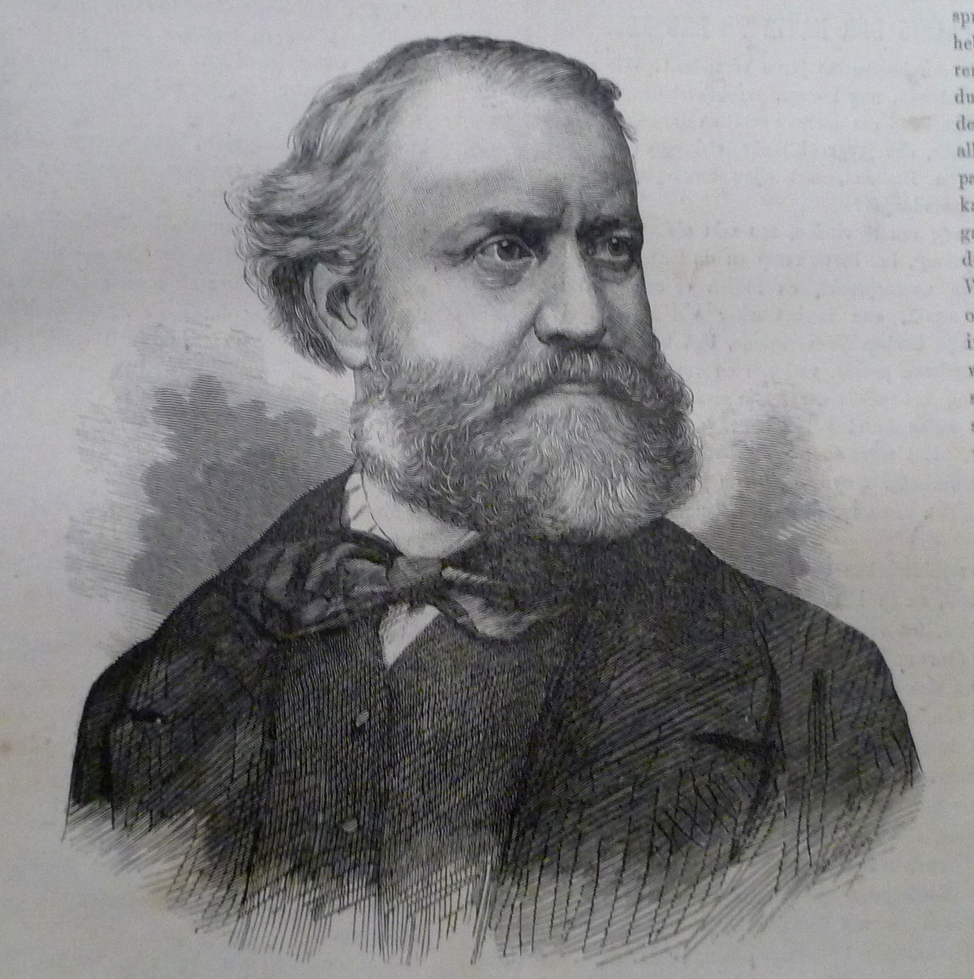 Portrait of the composer Charles Gounod